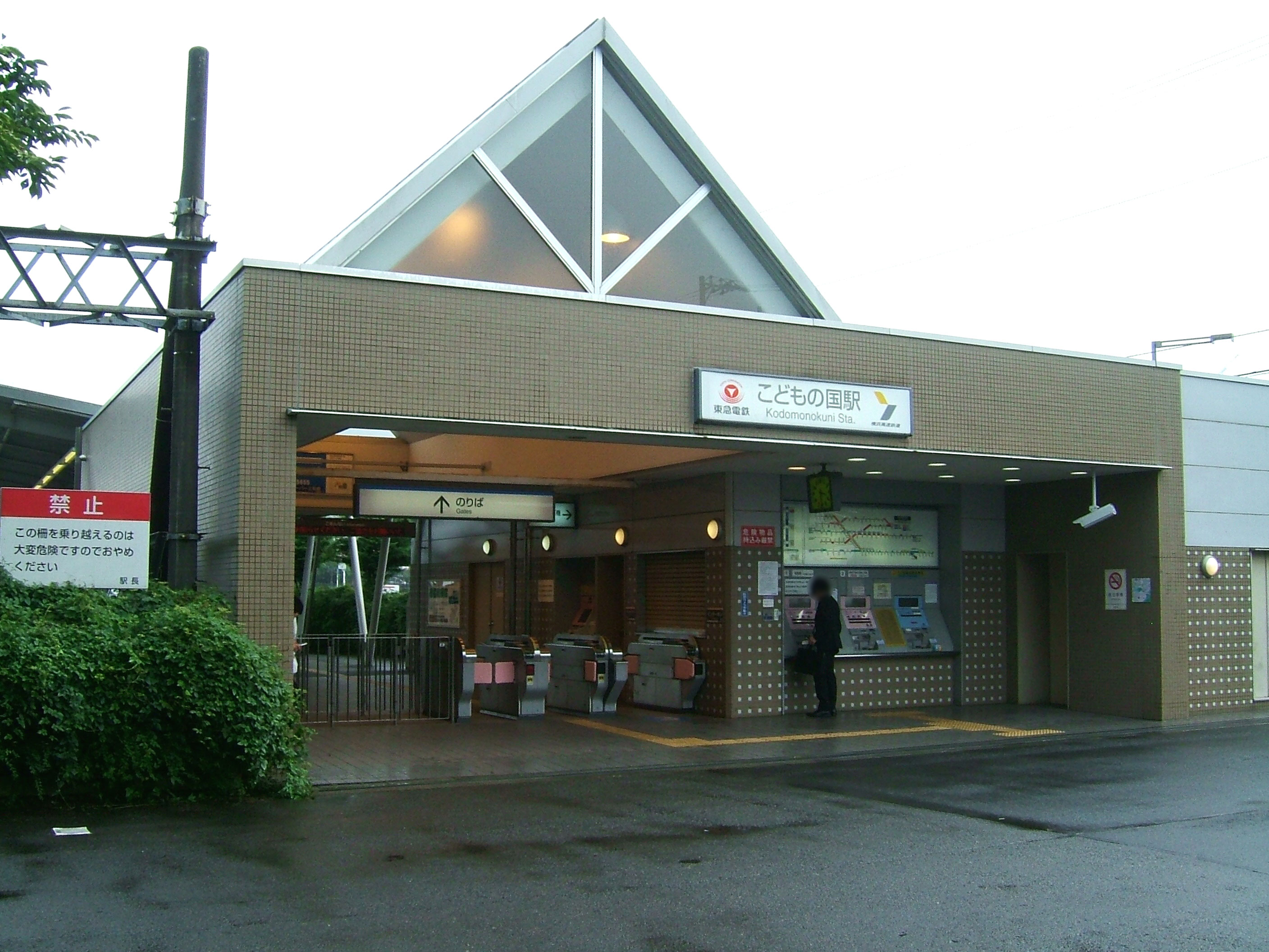 Kodomonokuni Station building (Kodomonokuni Line)